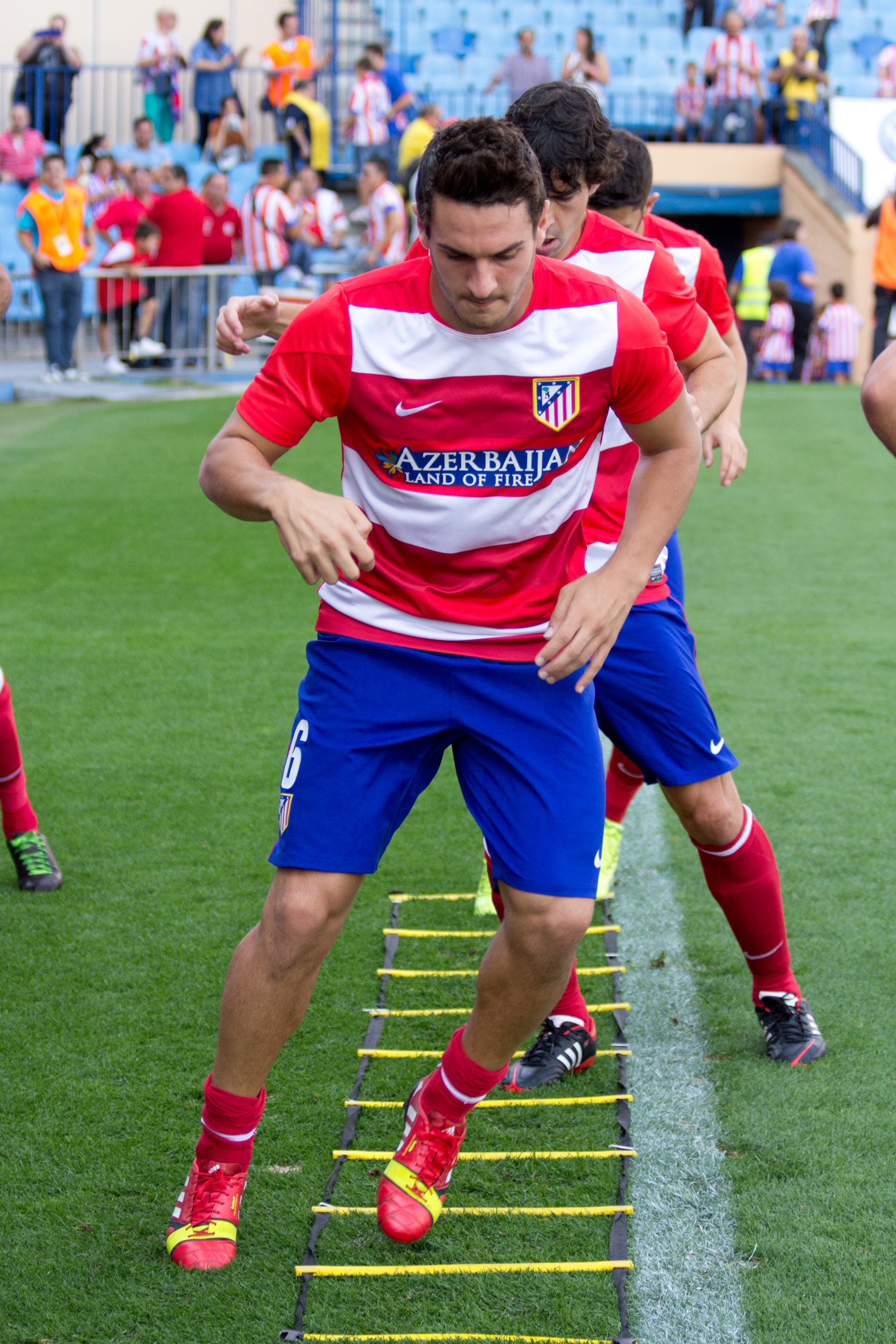 Koke Resurrección, footballer of Atlético de Madrid.